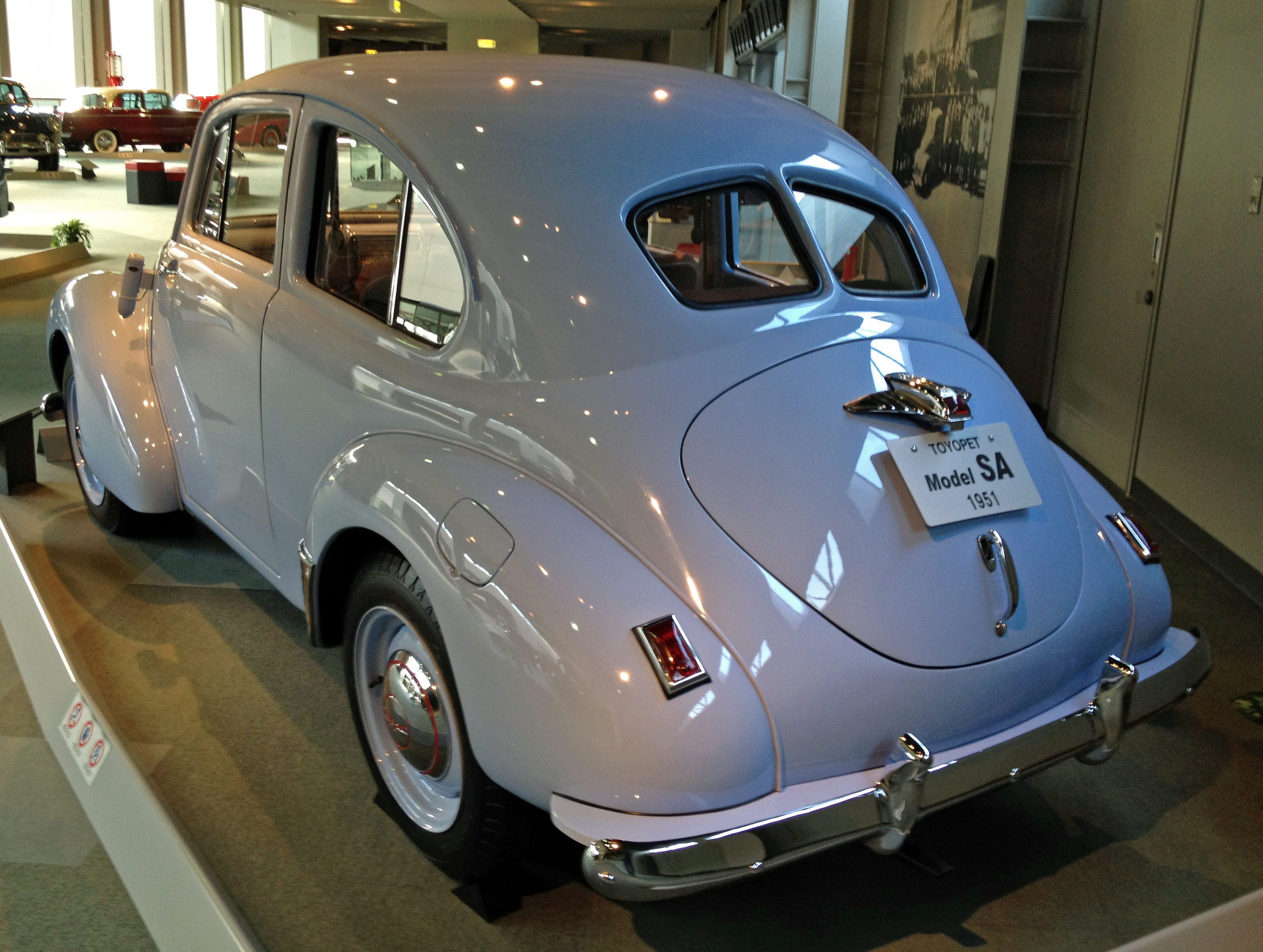 This model, the 1951 Toyopet SA, was Toyota's first small passenger car (in 1947). It uses a 995cc sidevalve four-cylinder. "Toyopet" is the nickname of Toyota's small vehicle selected in a public contest